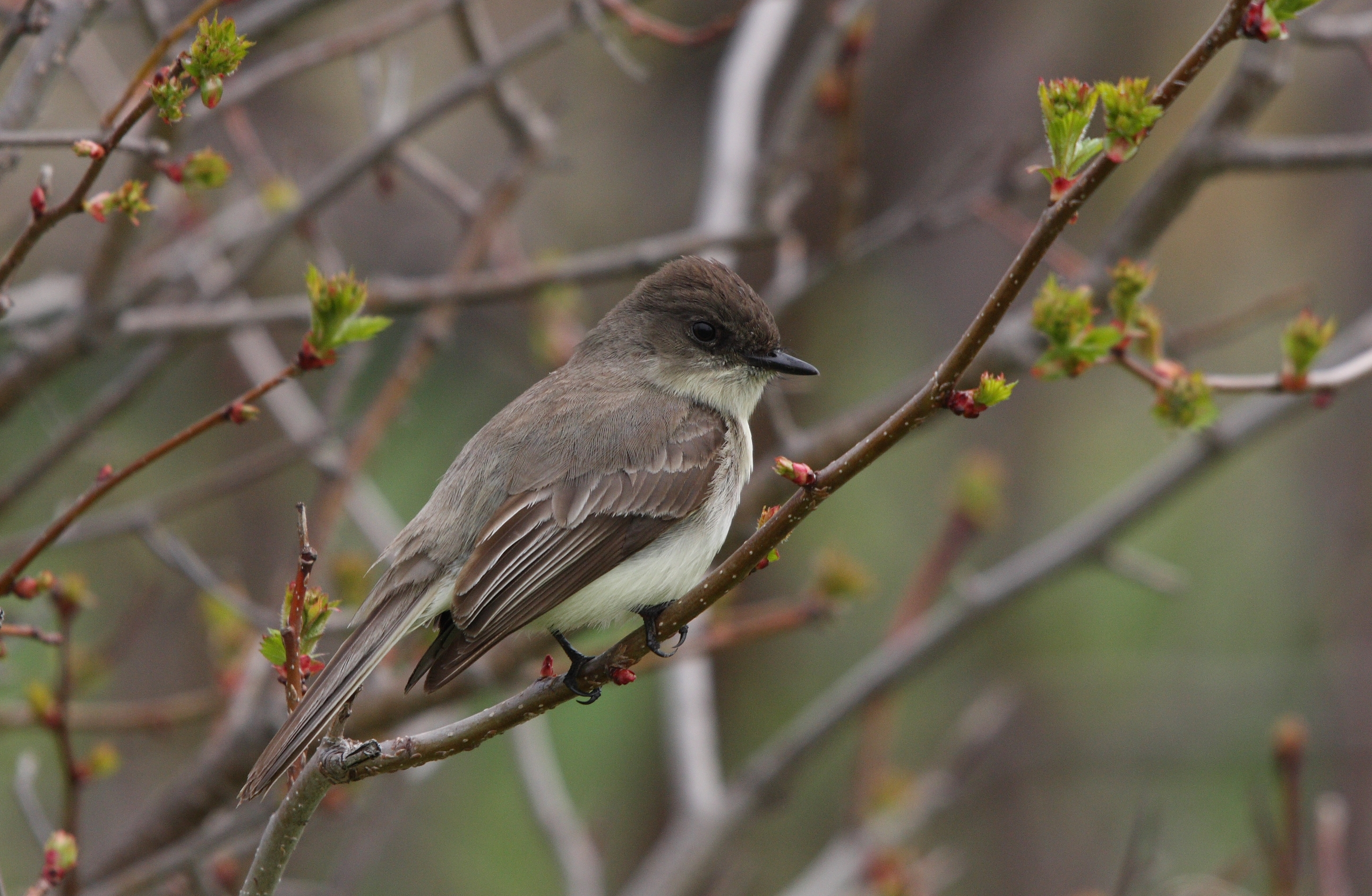 Eastern Phoebe (Sayornis phoebe), Cap Tourmente National Wildlife Area, Quebec, Canada